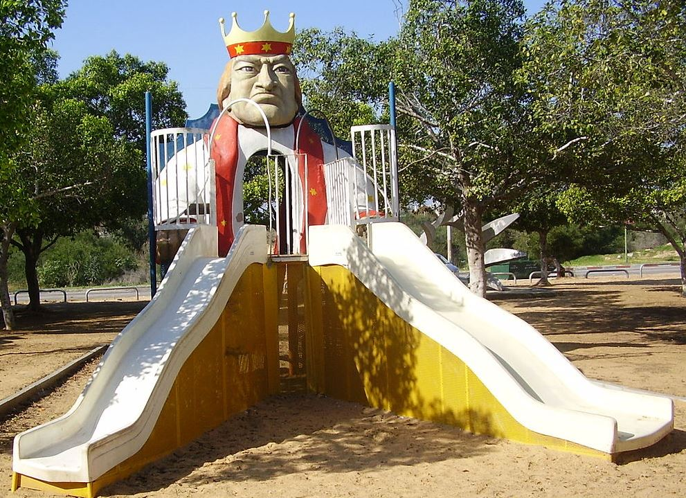 "The Little Prince" garden in Holon